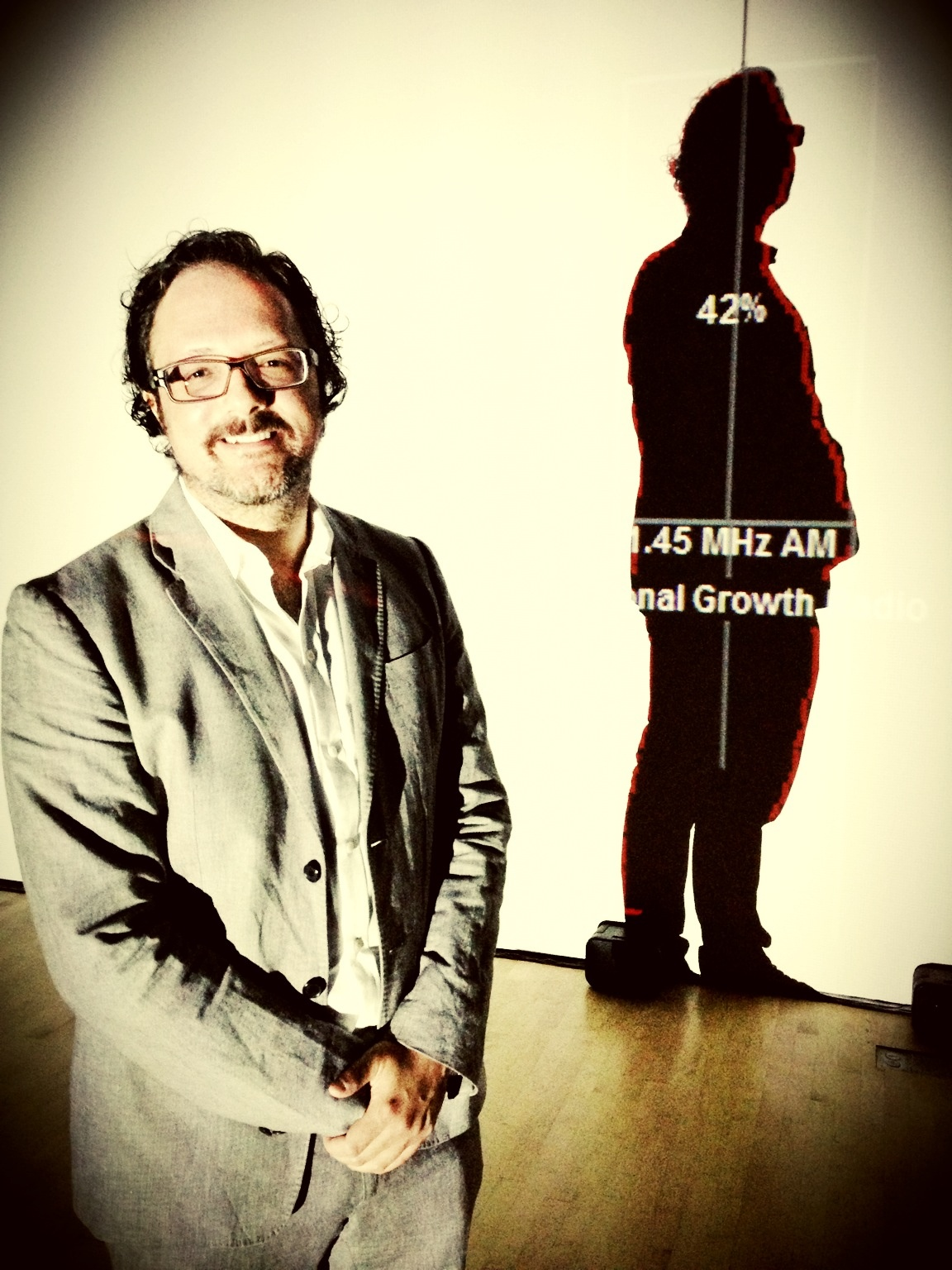 Artist Rafael Lozano-Hemmer at SFMOMA.